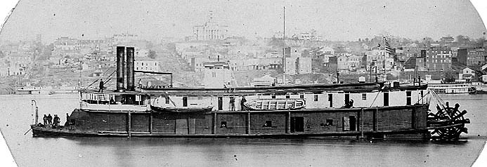 USS Prairie Bird (1863-1865), a US Civil War era "tinclad" gunboat. Photographed off Vicksburg, Mississippi, circa 1864-65. Note: identification number "11" painted on Prairie Bird's pilothouse; Vicksburg courthouse on the hilltop in left center. (Photo #: NH 42359)